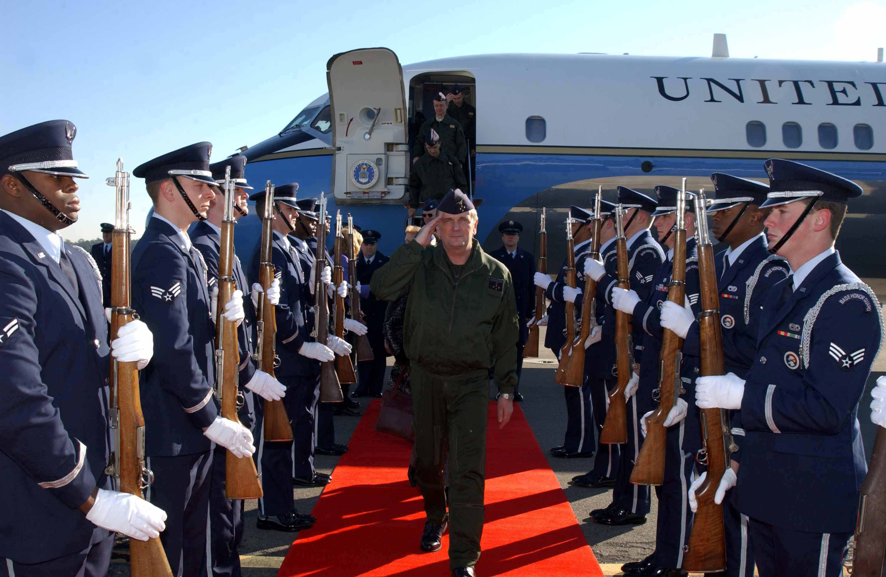 Chief of Staff of the French Air Force, General Richard Wolsztynski, is greeted red-carpet style by the 437th Honor Guard upon his arrival to Charleston Air Force Base, South Carolina.